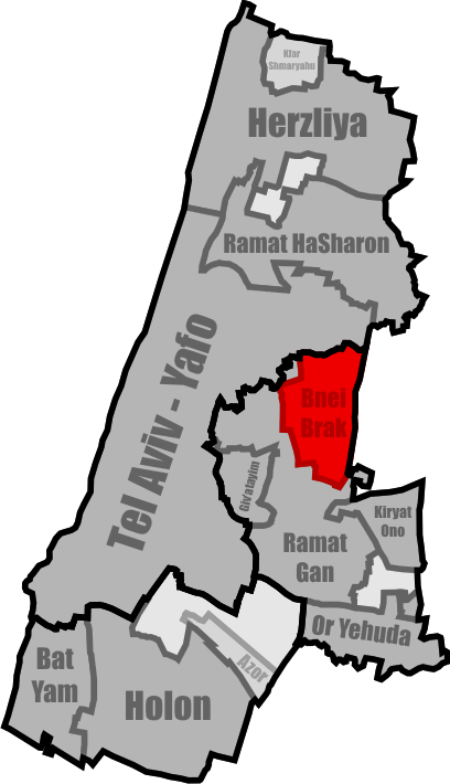 Location of Bnei Brak within the Tel Aviv District.